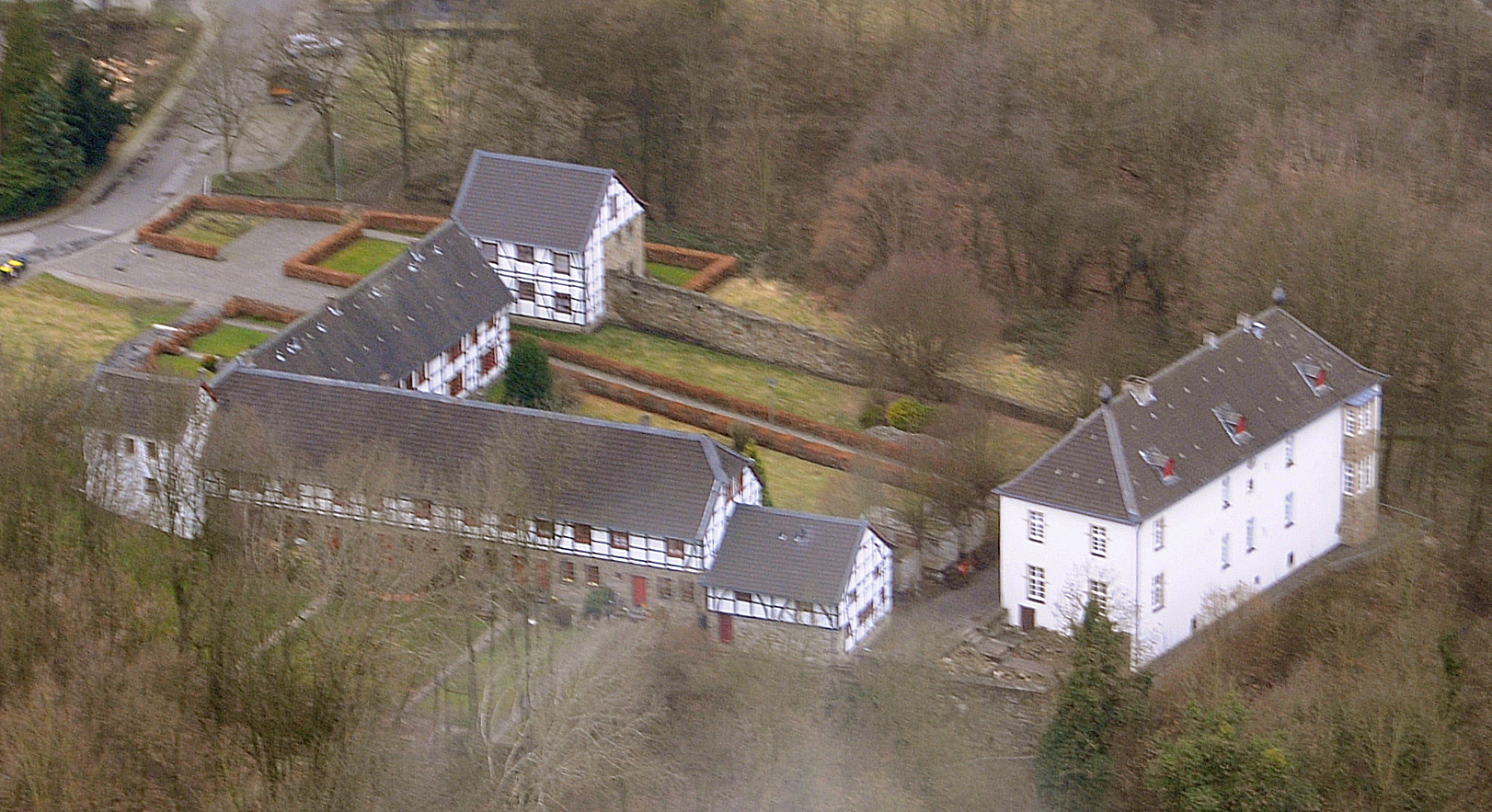 Aerial photograph of Haus Heisingen in Essen-Heisingen